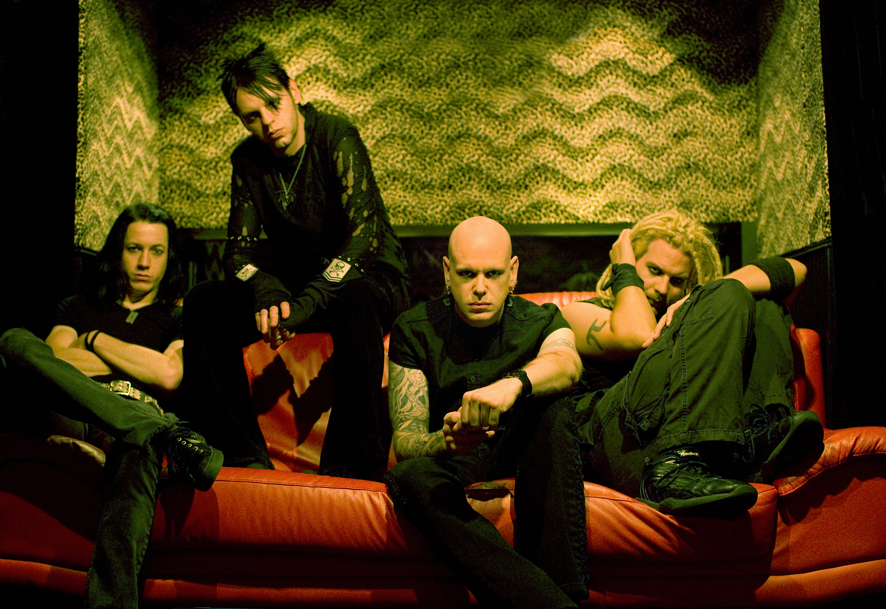 Members of the Band God Head